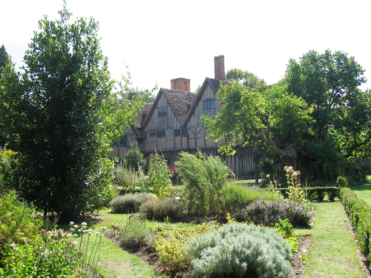 Hall's Croft, Stratford-upon-Avon, Warwickshire, England.